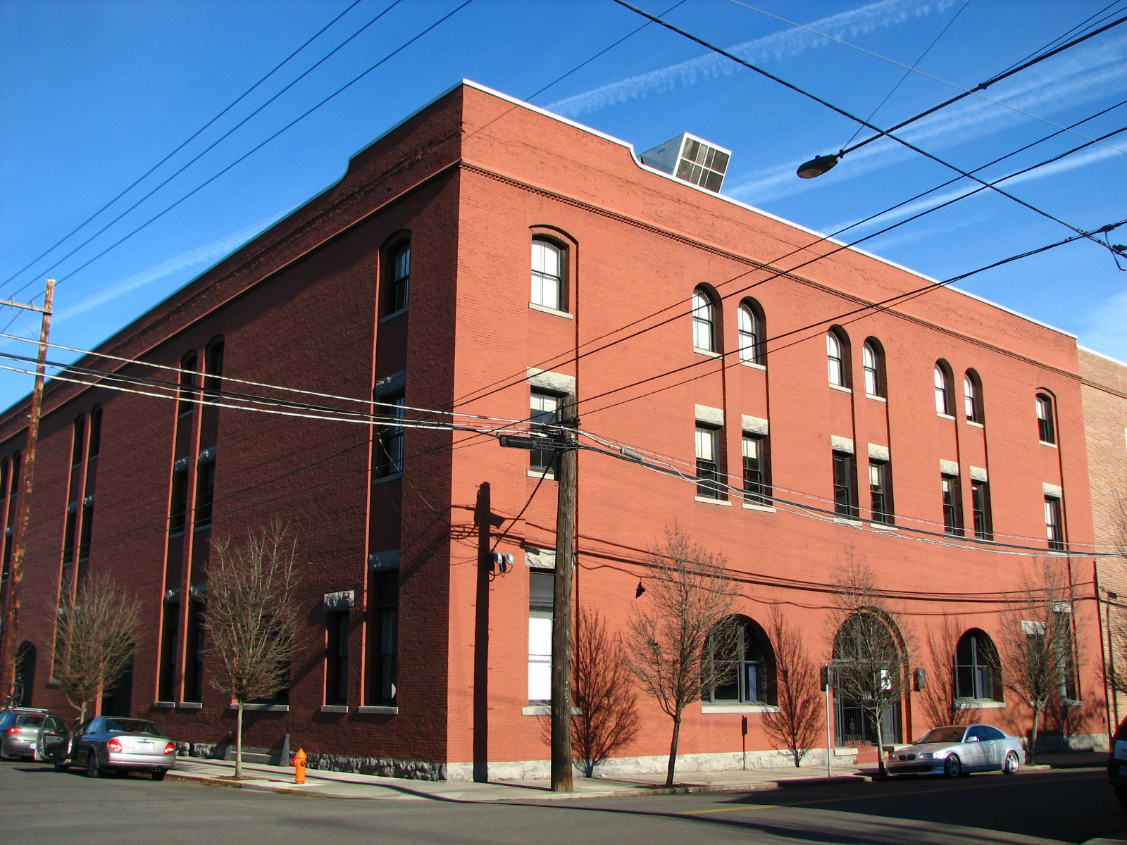 The historic Spokane, Portland and Seattle Railroad Warehouse (built ca. 1908), located at 1631 Northwest Thurman Street in Portland, Oregon, United States, is listed on the US National Register of Historic Places. It has been converted into an office building.